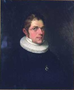 Portrait of Nicolai Wergeland.